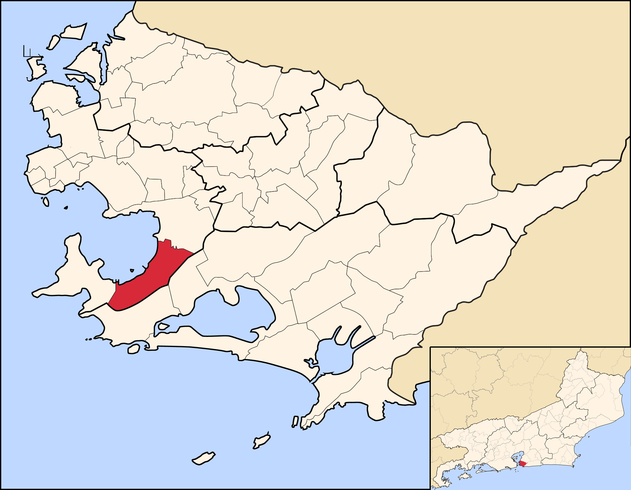 Charitas, Niterói, Rio de Janeiro, Brazil.